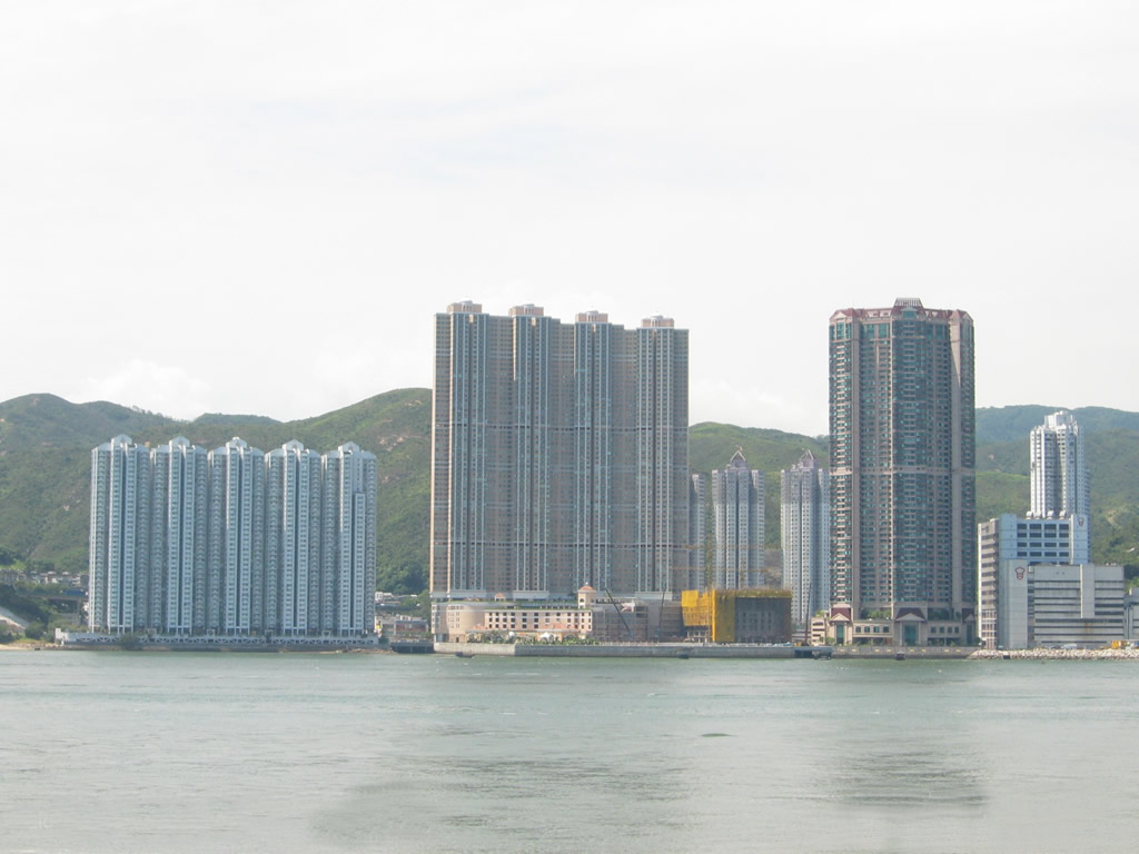 Sham Tseng, Tsuen Wan, New Territories, Hong Kong